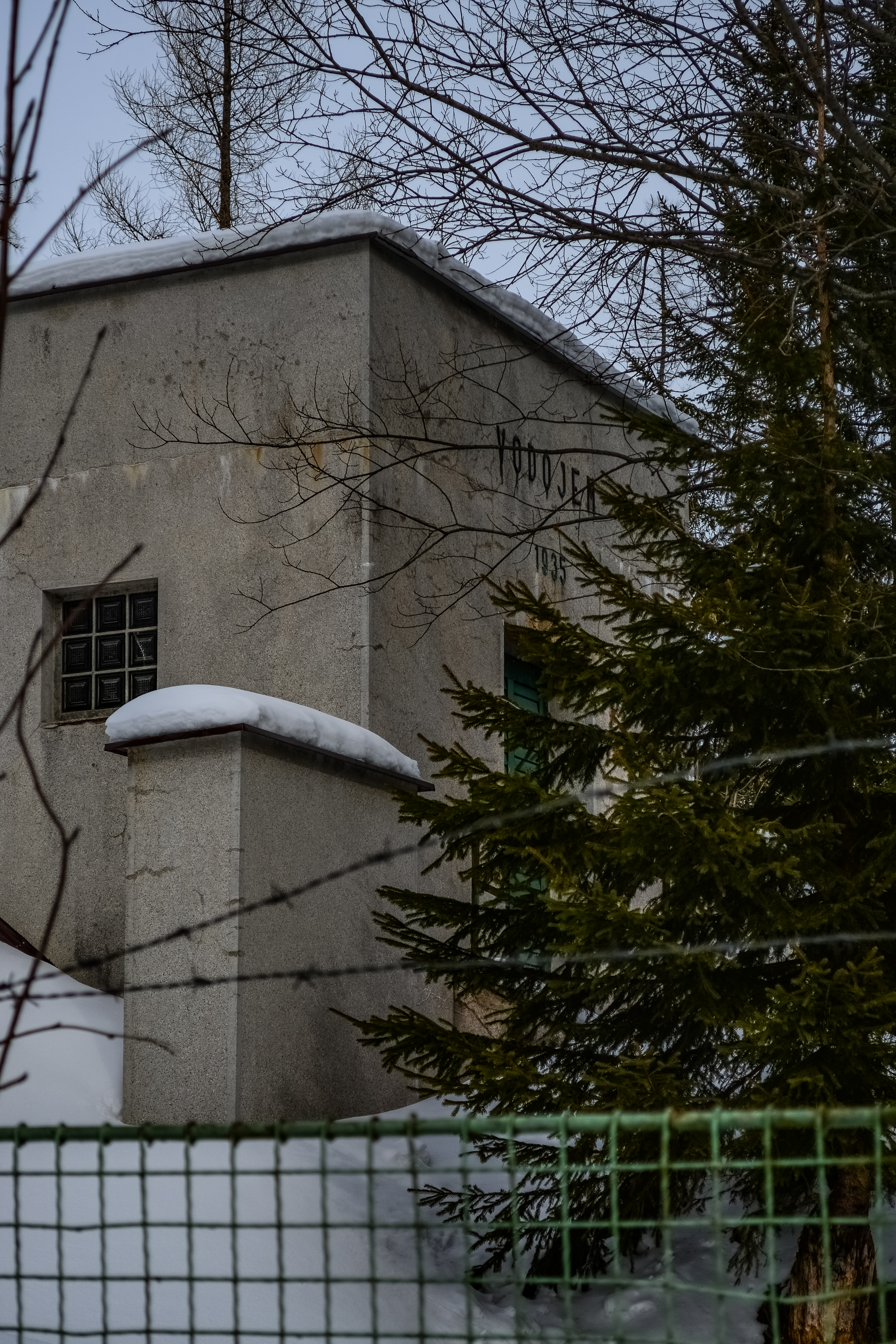 Water reservoir of Vyšné Hágy